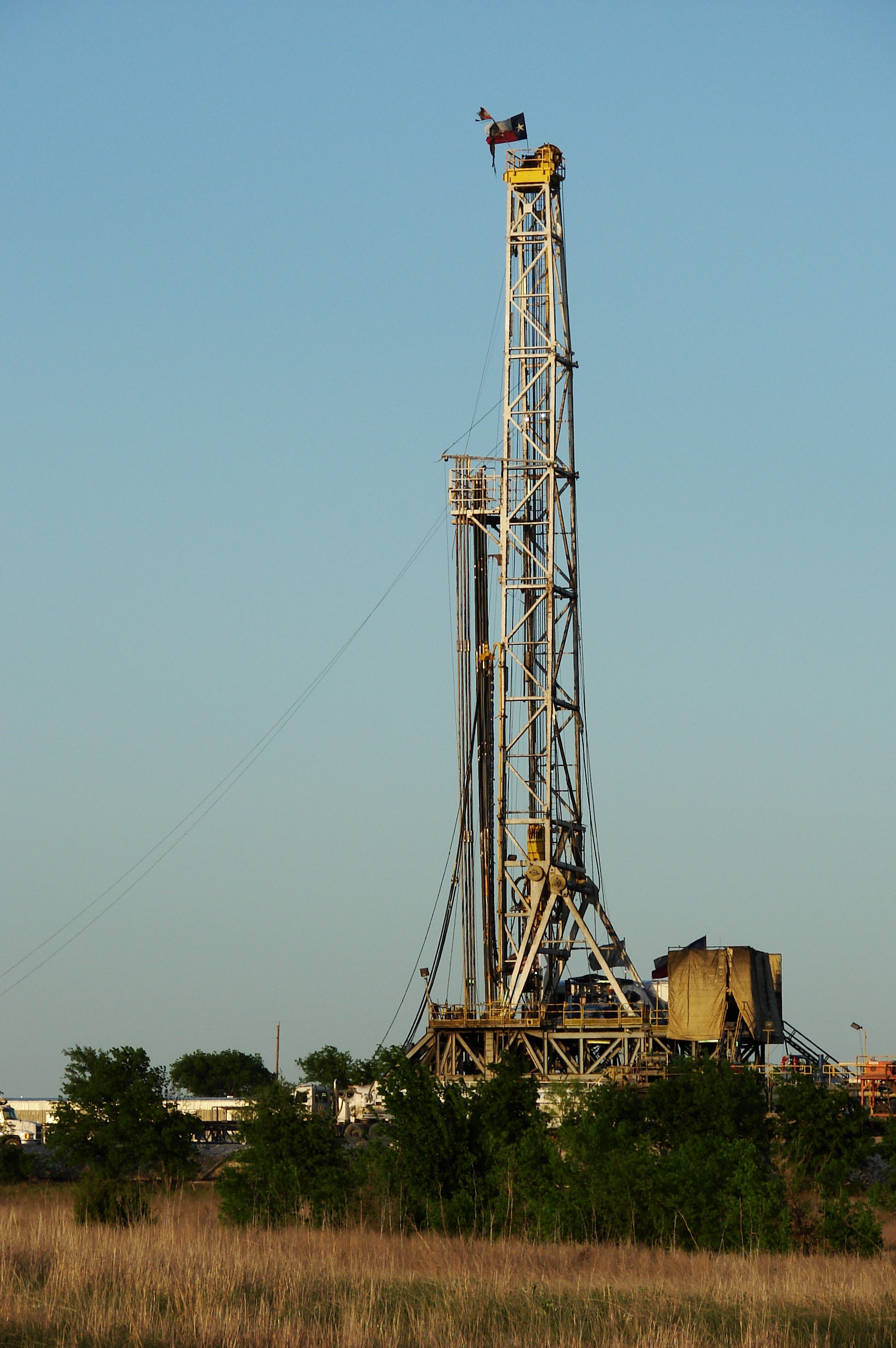 Texas Barnett Shale gas drilling (fracking) rig near Alvarado, Texas, just off of state highway 67.